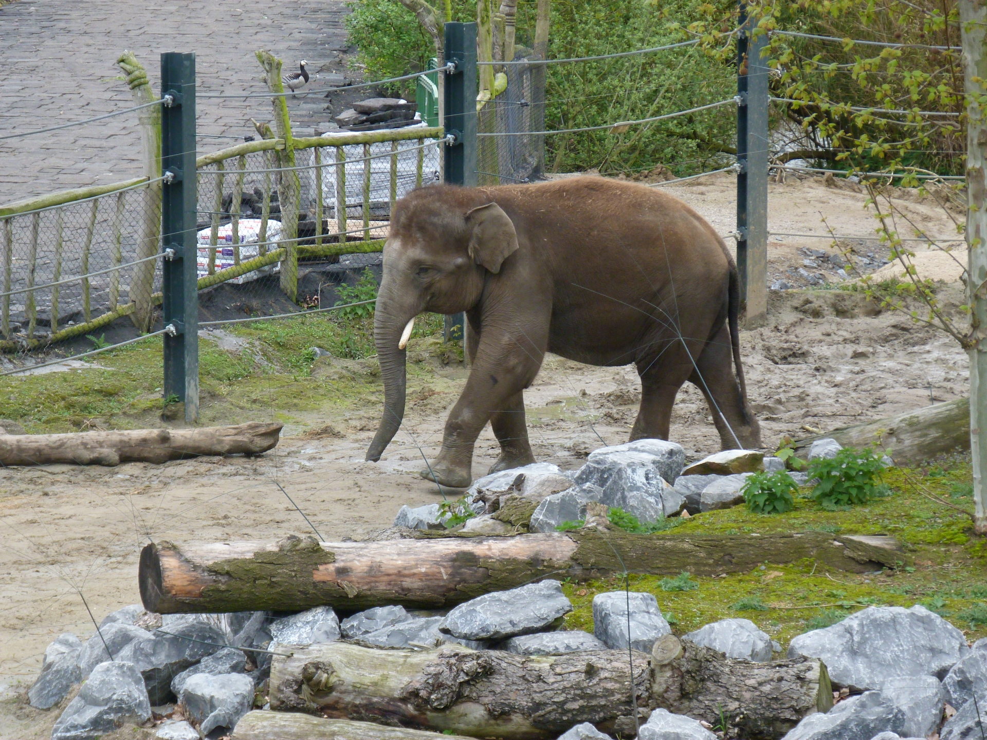 Male Asian elephant in Pairi Daiza